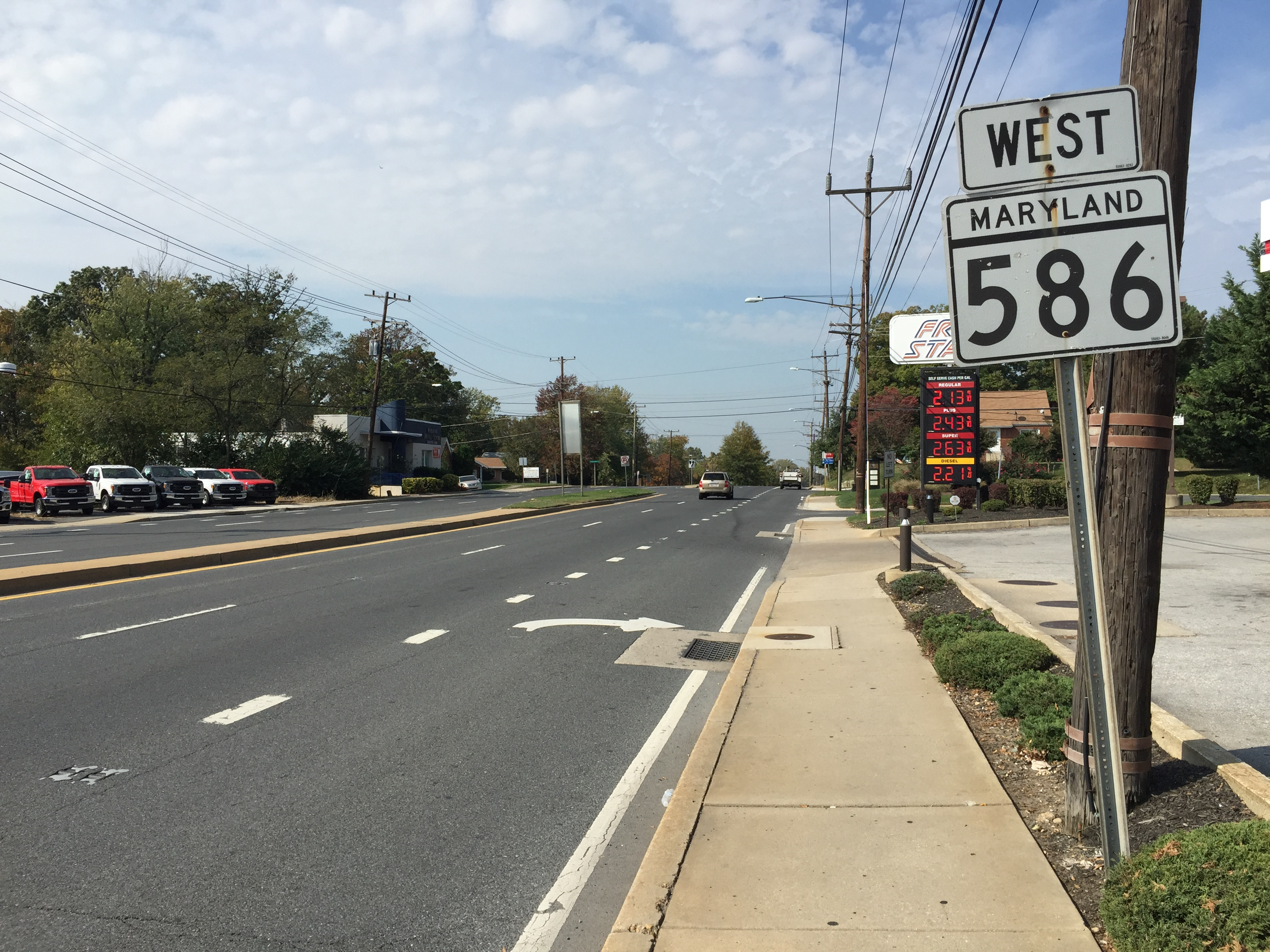 View west along Maryland State Route 586 (Veirs Mill Road) at Maryland State Route 193 (University Boulevard) in Wheaton, Montgomery County, Maryland